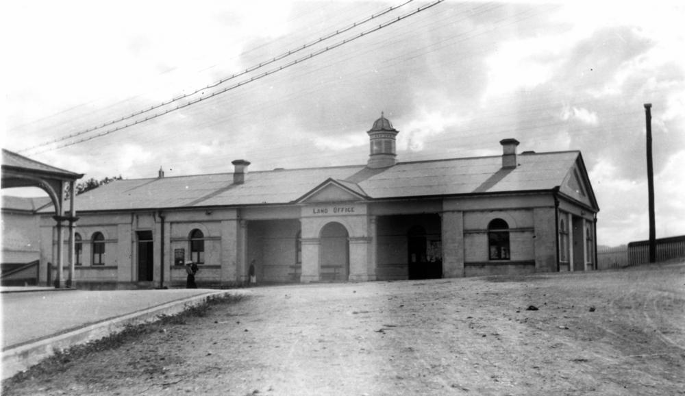 Gympie Lands Office, ca. 1911 Lands Office on Cannon Street in Gympie. The brick building has a corrugated iron roof, with archways leading from the street to the front entrance. Gympie is a city in south-eastern Queensland, situated on the Mary River about 162 kilometres north of Brisbane. Gympie is the centre of an important dairying and agricultural district. In the early days timber was a significant industry.